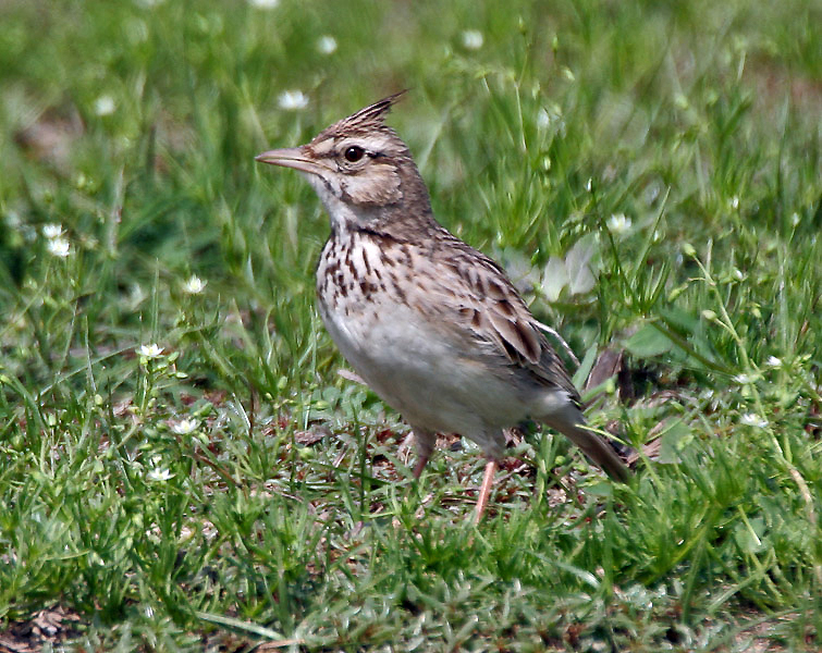 Crested Lark (Galerida cristata) at Sultanpur National Park in Gurgaon District of Haryana, India.